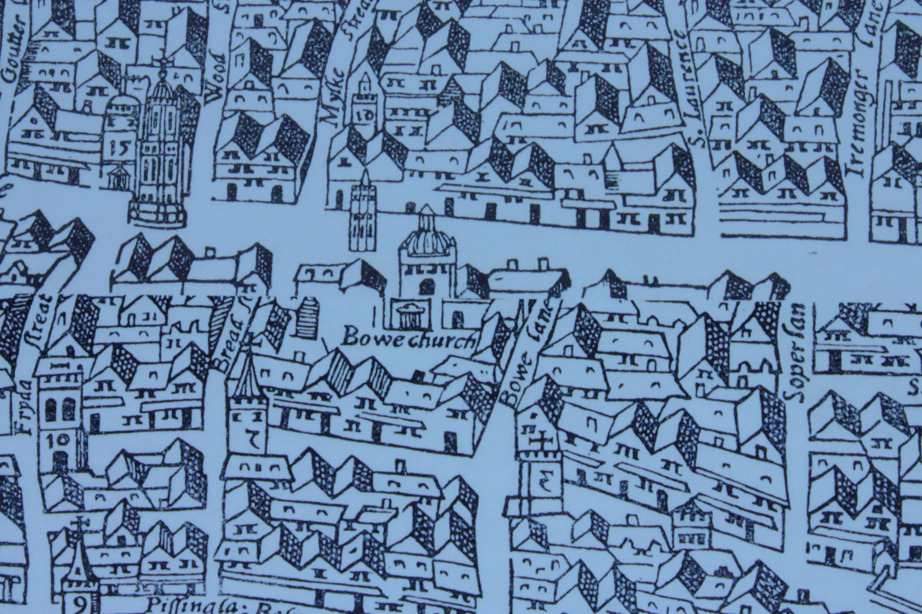 St Mary-le-Bow Church as shown on Agas map of 1561